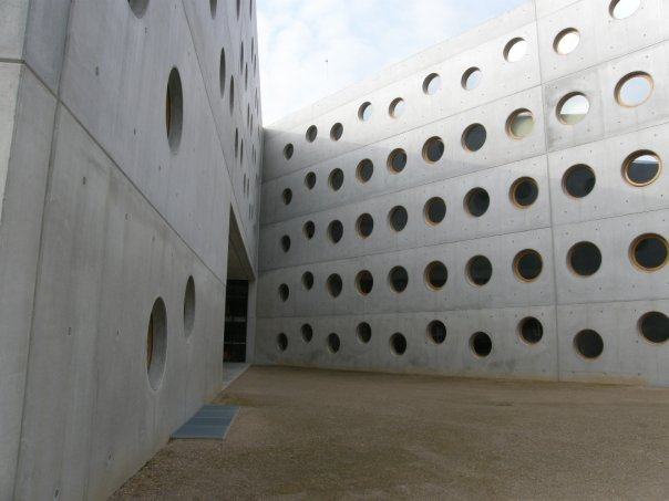 exterier of library in Hradec Kralove